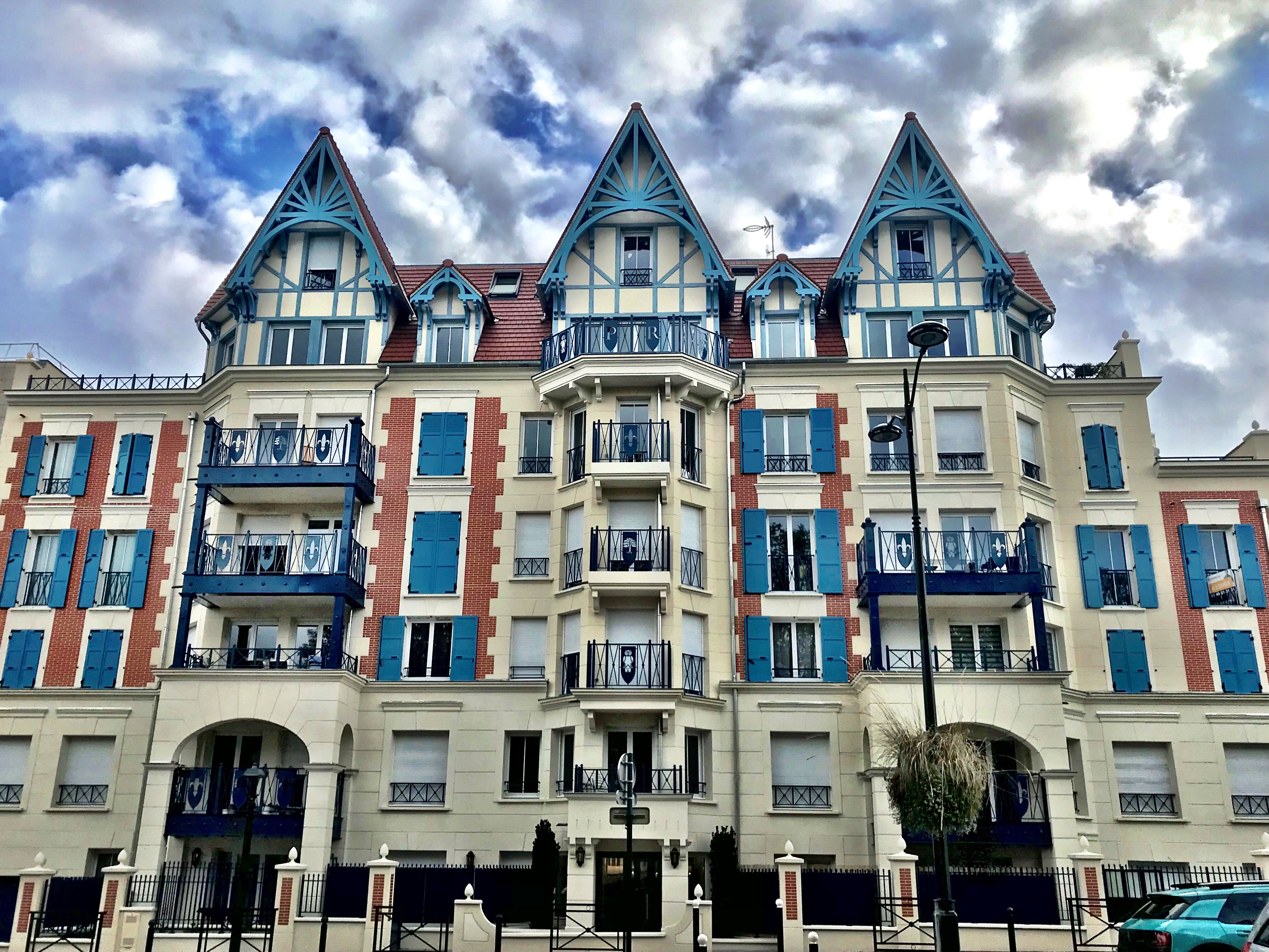 New urbanism in France: Villa Maintenon Le Plessis-Robinson